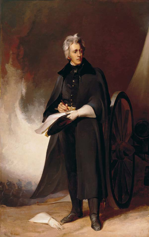 Andrew Jackson (1845). Thomas Sully (English-born American, 1783-1872). Oil on canvas. Corcoran Gallery of Art. In 1824 Sully painted a study portrait from life of Jackson. The hero of the Battle of New Orleans was by then a U.S. senator and a Democratic nominee for president. Jackson’s ill health prompted Sully to copy his 1824 portrait, completed shortly before Jackson’s death in April 1845. Sully used the replica as a model to create this full-length portrait of Jackson as the battle (Text from Pinterest